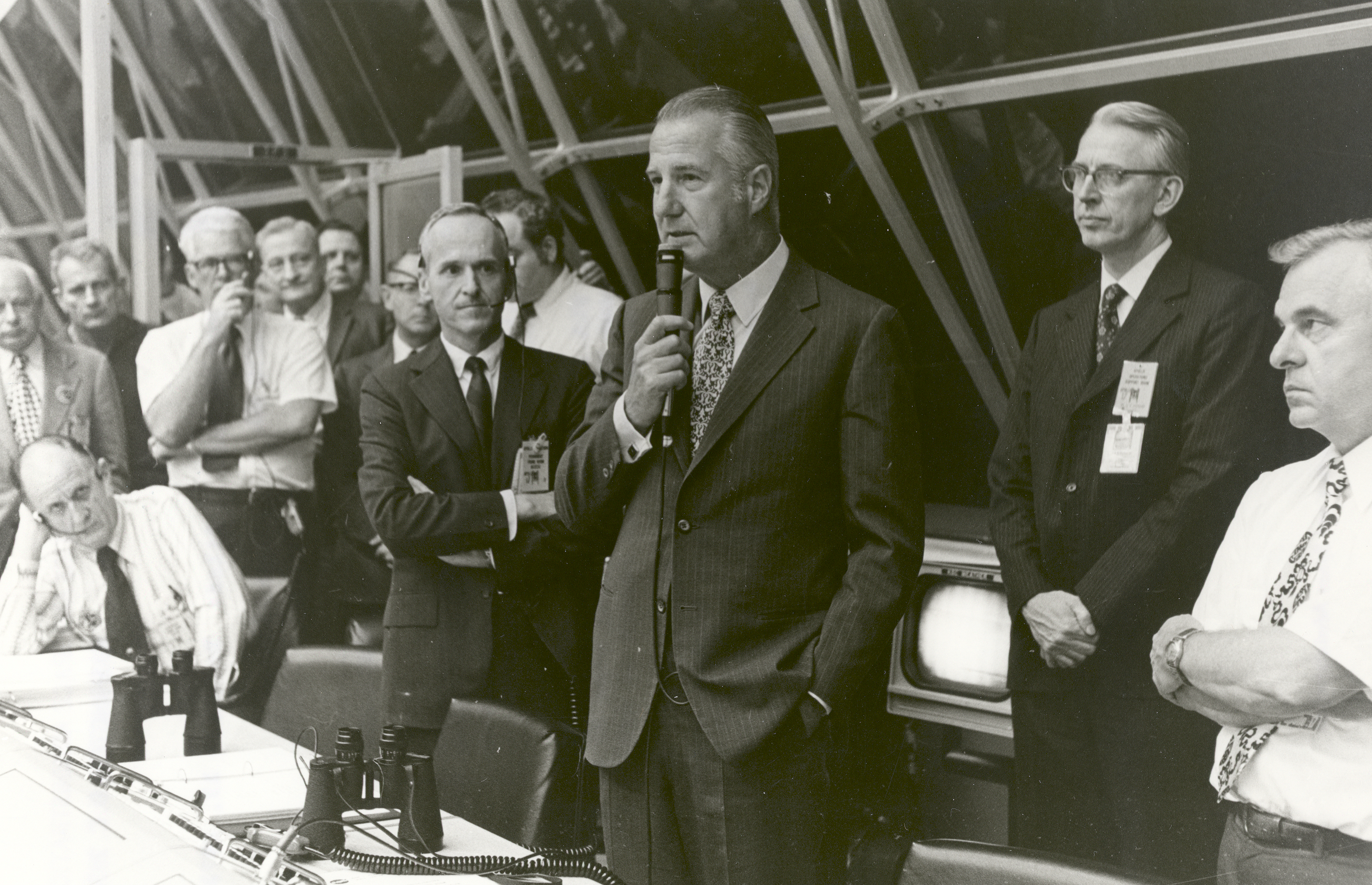 Vice President Spiro T. Agnew congratulates launch team personnel, in firing room #1 of launch control minutes after the successful launch of Apollo 17 from Complex 39-A at 12:33 am EST, December 7, 1972, with astronauts Eugene A. Cernan, Ronald E. Evans, and Harrison H. Schmitt aboard. Apollo 17, NASA's sixth and final manned lunar landing mission in the Apollo program, landed within 200 feet of the targeted point in the Taurus-Littrow landing site on the lunar surface at 2:55 pm EST on December 11, 1972.